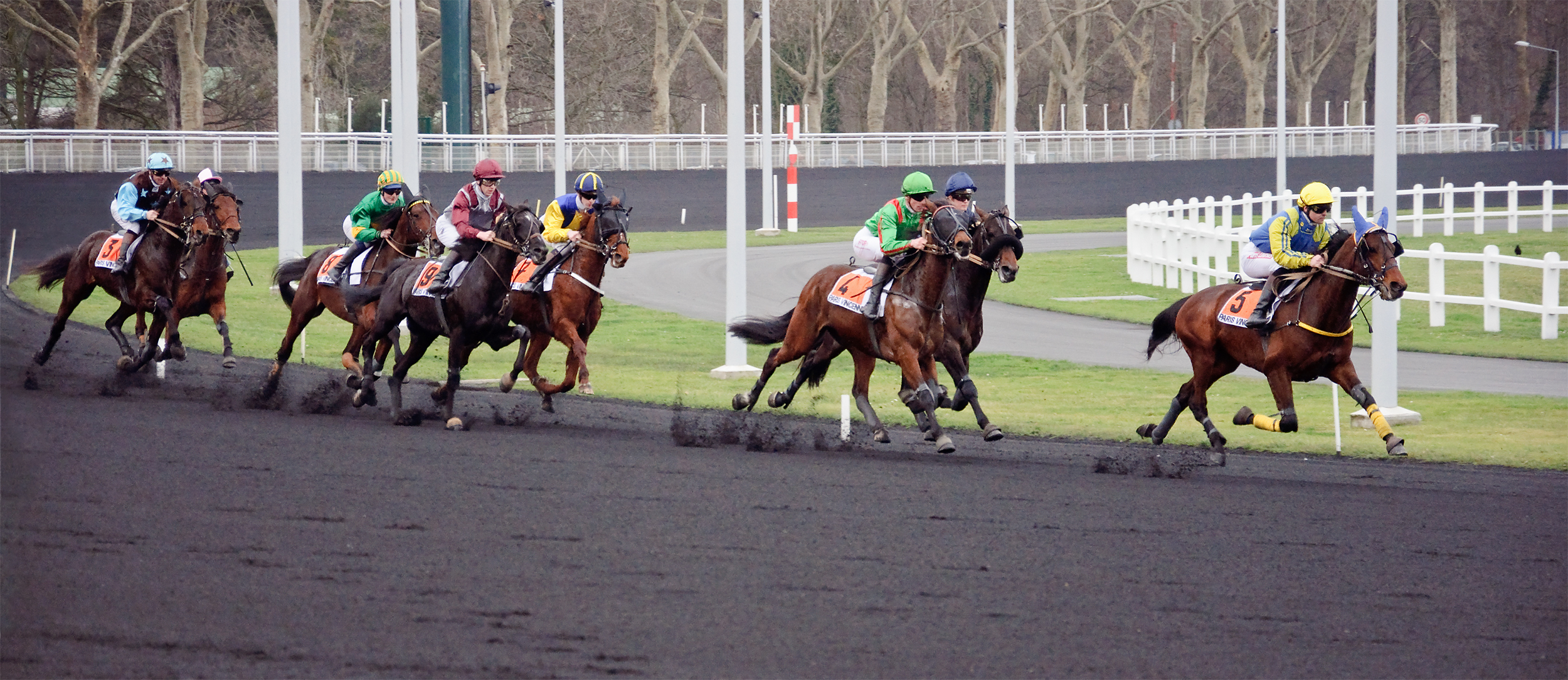 Mounted trotting race at racecourse of Vincennes in Paris. Prix du Japon - Prix de France 2011.